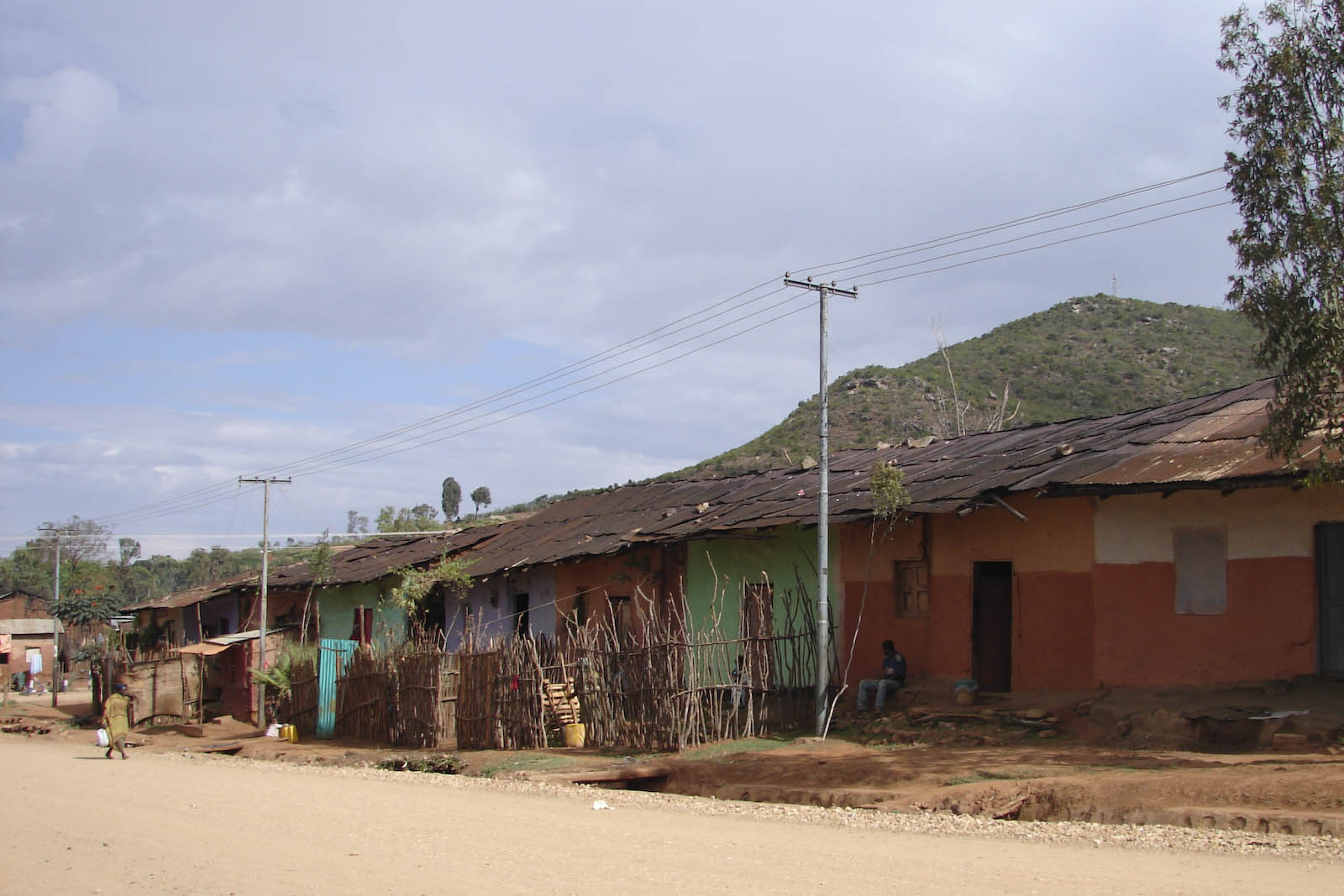 Street in Yabelo (Ethiopia)